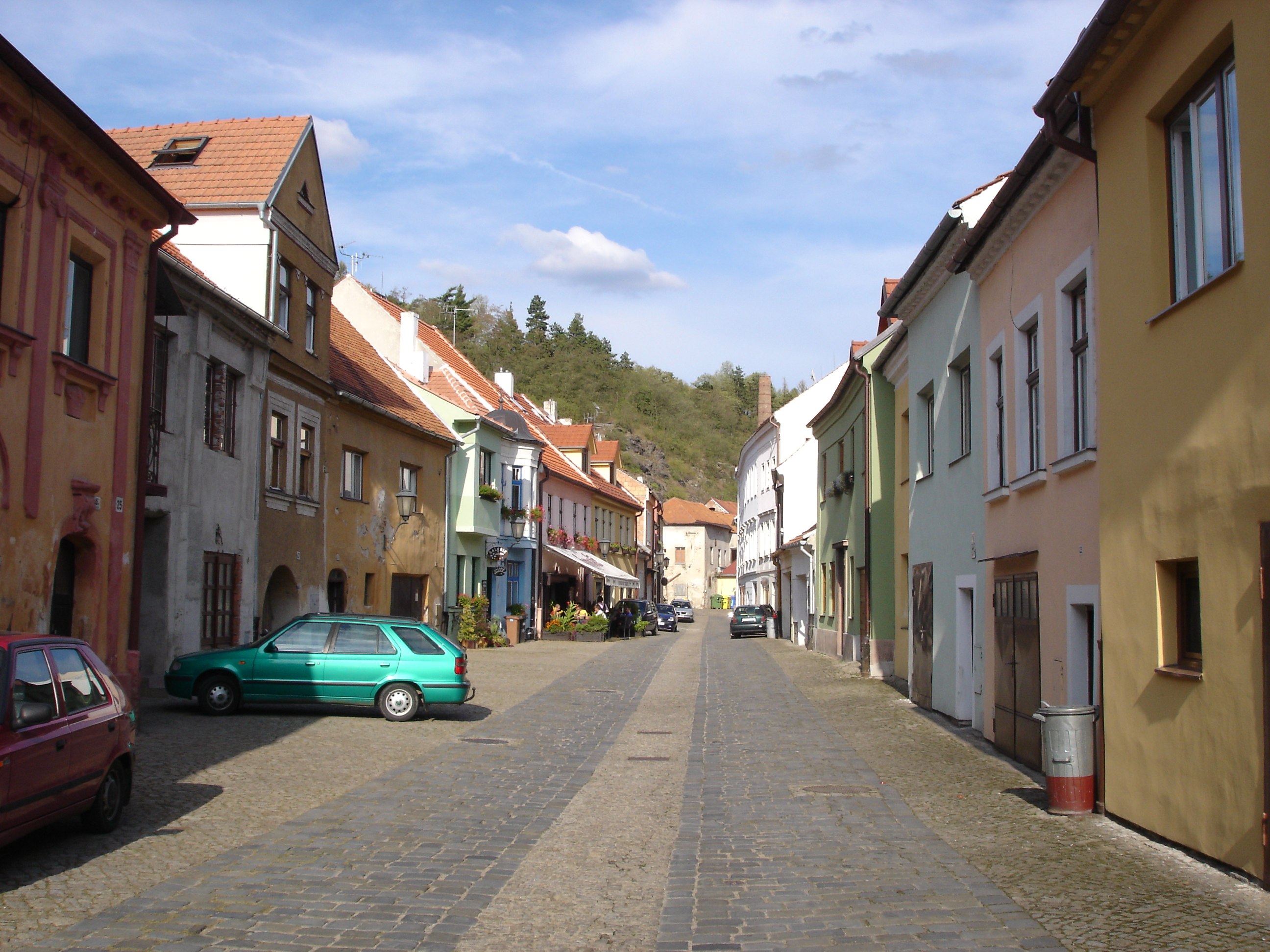 Typically street in Třebíč Jewish quarter.